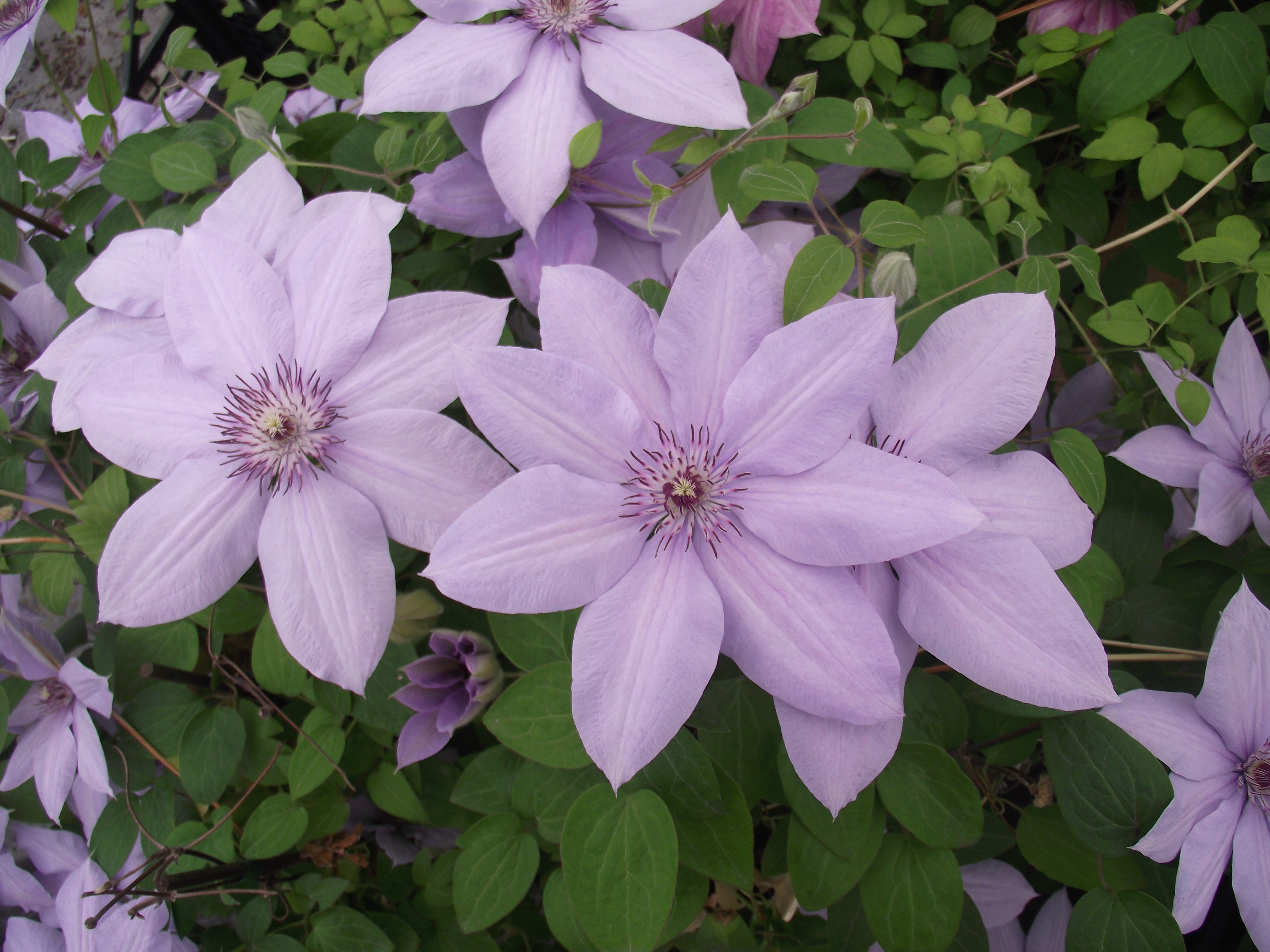 Clematis patens Bernardine 'Evipo061'